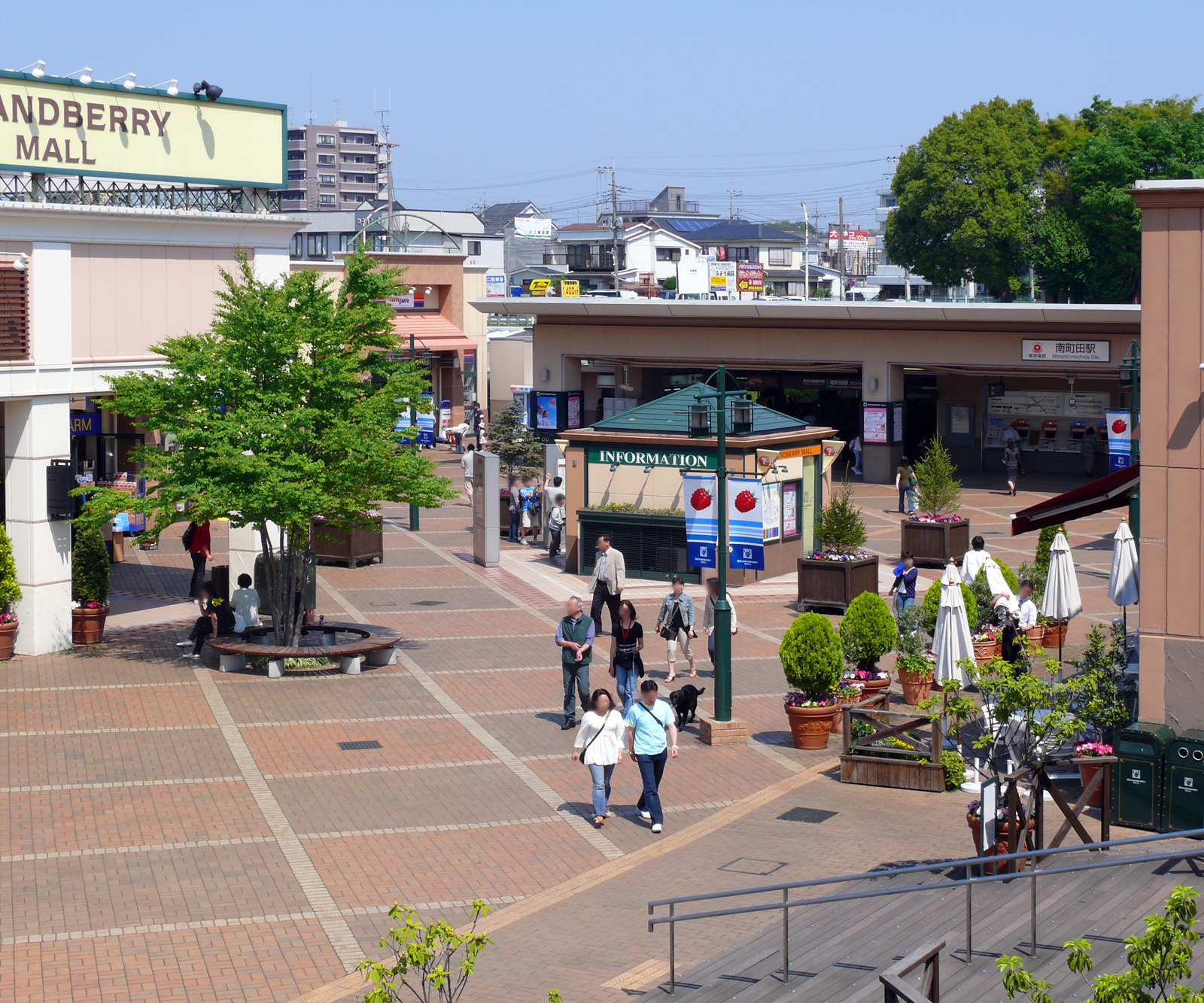 South side of Minami-Machida Station on the Tokyu Den-en-toshi Line and the adjacent Grandberry Mall